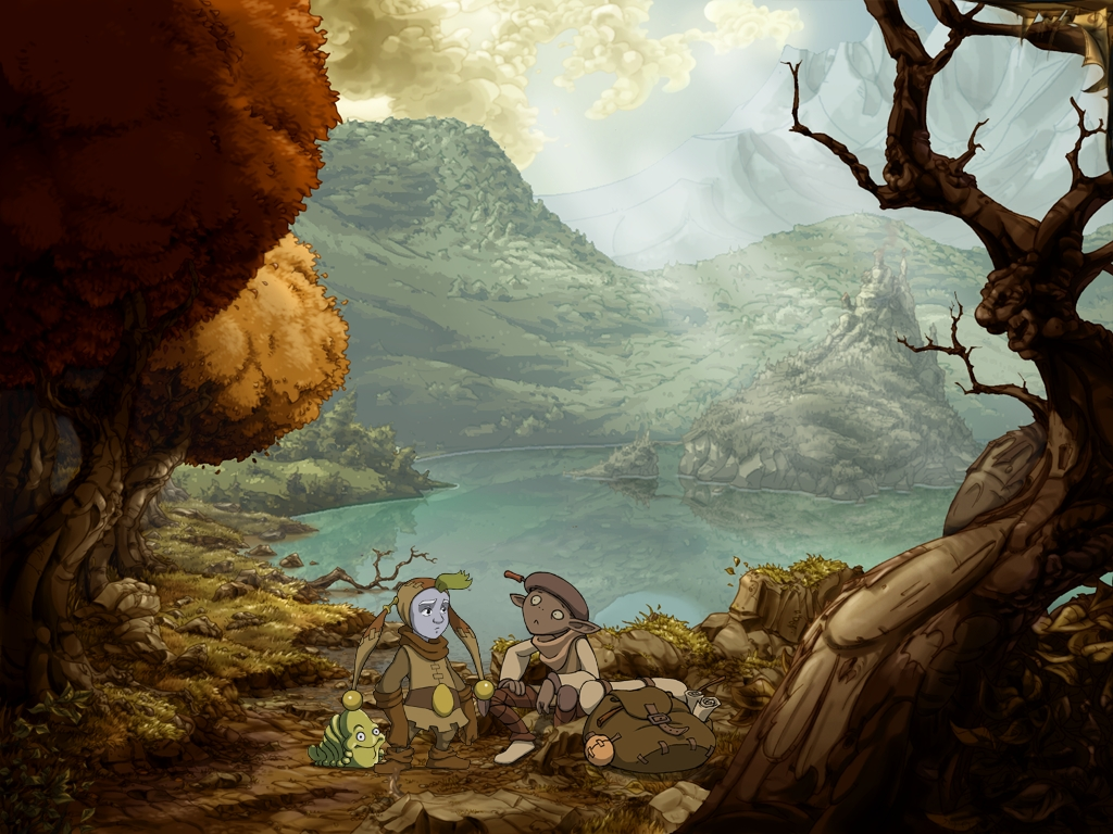 A screenshot from the computer game „The Whispered World“.